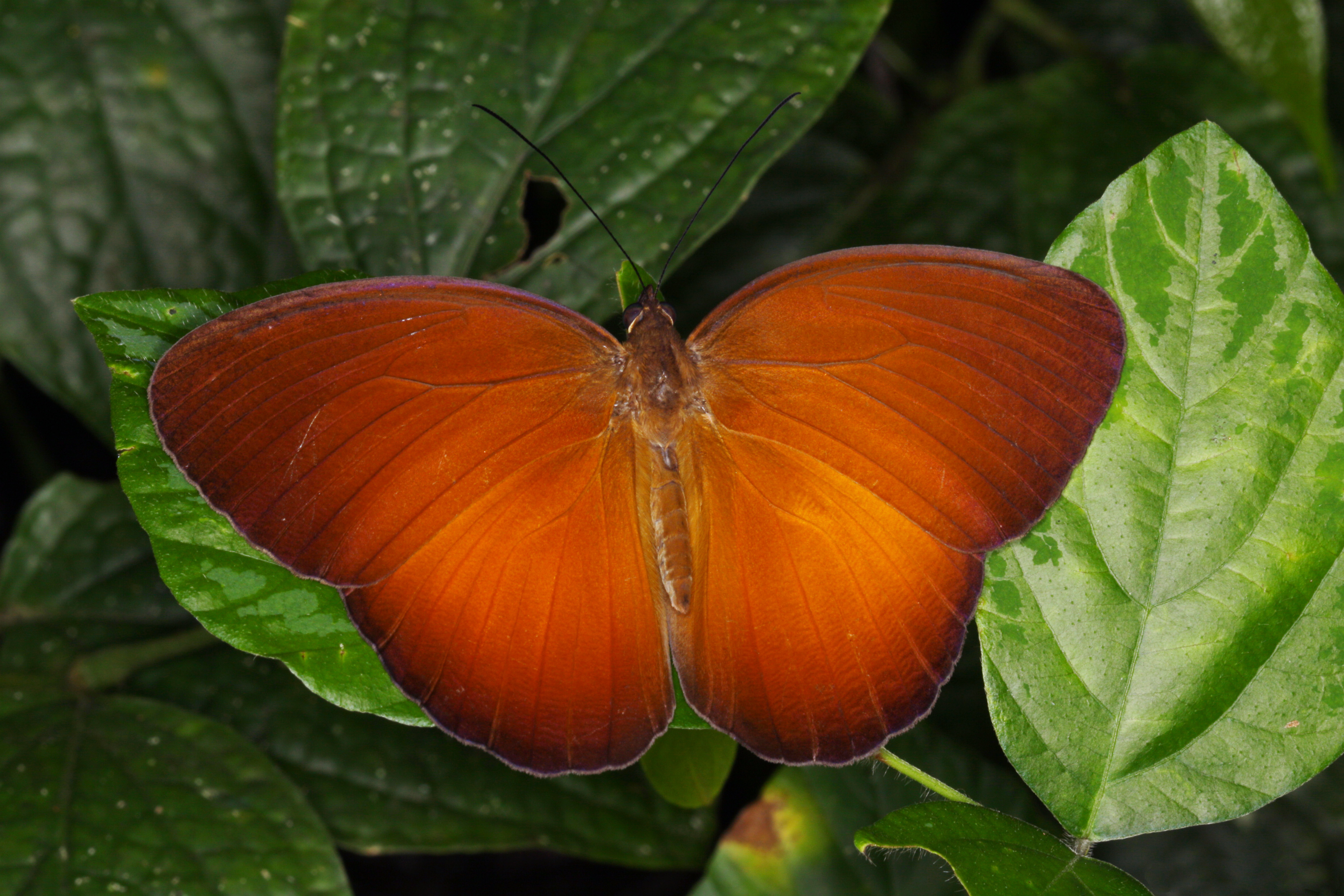 I was early and lucky: this Faun caught the first rays of the morning sun in this damp & chilly mountain forest of Lore Lindu National Park. Faunis menado HEWITSON, 1863 ?, (Menado Faun; its distribution points to this species) Genus: Faunis HÜBNER, 1819 (fauns or duffers) [det. Tanya Mass, 2010, based on this photo] Tribus: Amathusiini Subfamily: Morphinae (morphos, owl butterflies & related lineages) Family: Nymphalidae (brush-footed or four-footed butterflies, Edelfalter) Superfamily: Papilionoidea (unranked): Rhopalocera Suborder: Glossata Order: Lepidoptera (butterflies, Schmetterlinge) Subclass: Pterygota Class: Insect (insects, Insekten) Subphylum: Hexapoda Phylum: Arthropoda more info: and: Indonesia, Central Sulawesi, Napu valley, Lore Lindo NP: Tambing lake (mountain rainforest), ca. 1500m asl., 08.05.2010 ________________________________________________ 100mm 2.8 macro (Canon), 1/160s, f16, ISO100, 0 EV, ring-flash, hand-held IMG_0938